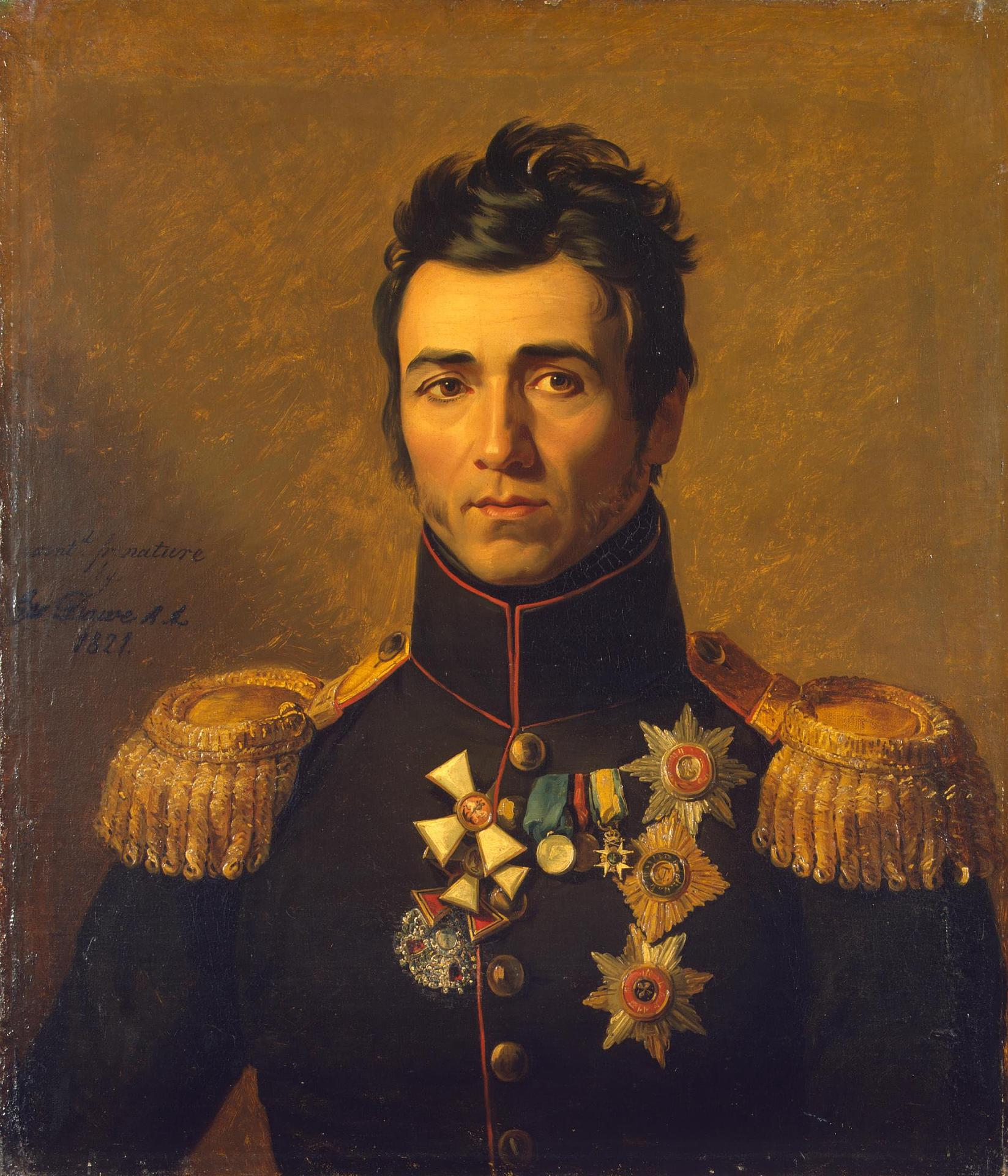 Kaptsevich, Pyotr Mikhaylovich((1772 — 1840) russian general of the artillery, by Geo Dawe 1823-1825 S-Peterburg, Winter Palace War Gallery.